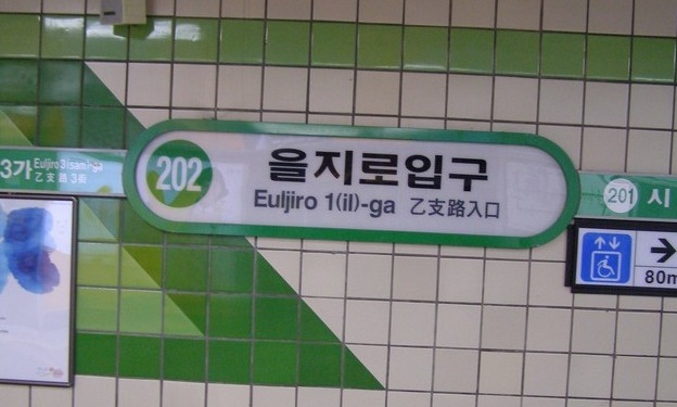 Euljiro 1-ga Station